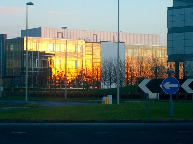 The Alba Centre, Livingston A low winter sun on the west of the glass office block